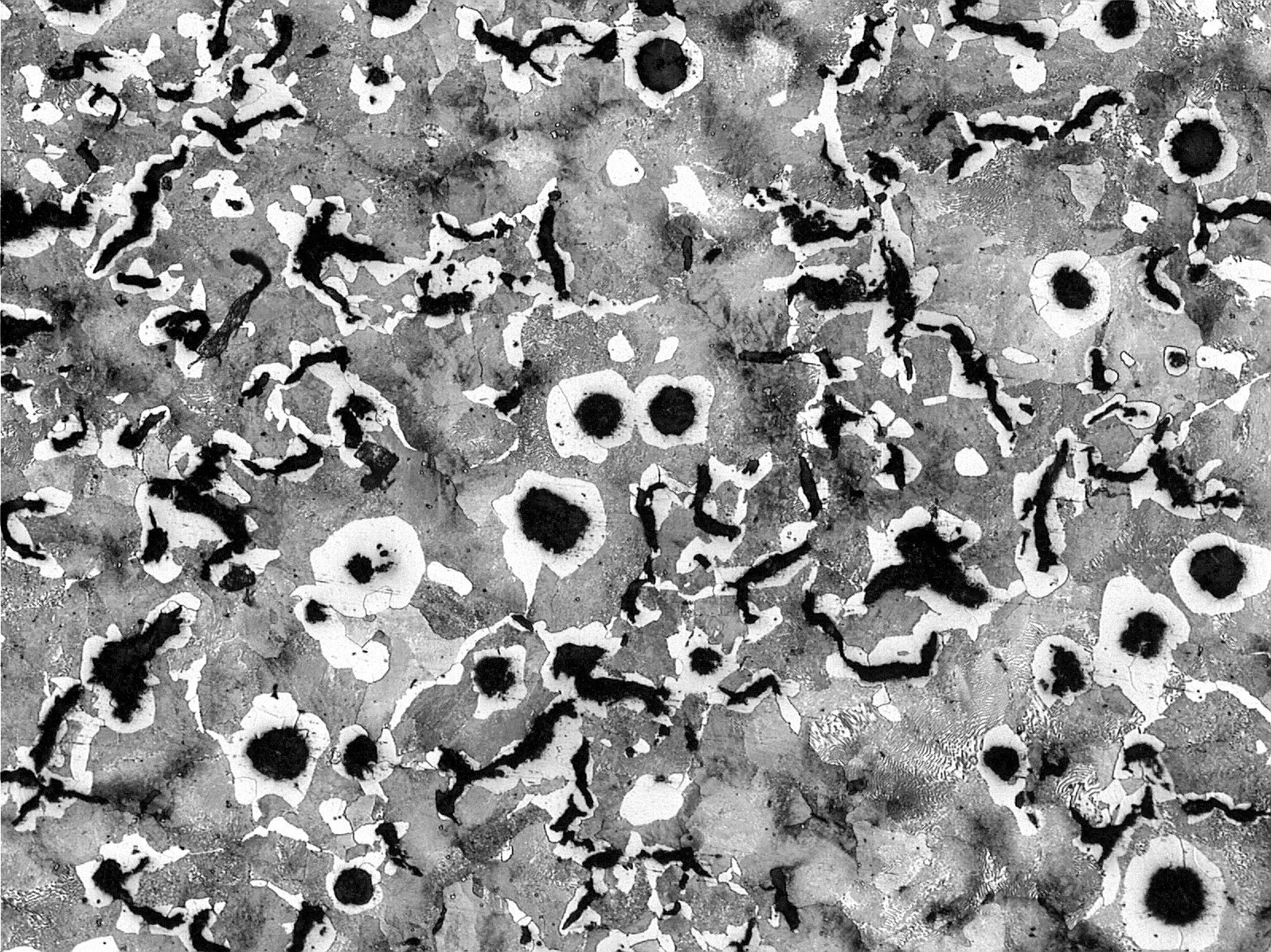 Cast iron GJV, etched 3% Nital, vermicular (+spherical) graphite, perlite + ferrite, magnification 100:1 (if printed 12 x 9 cm)